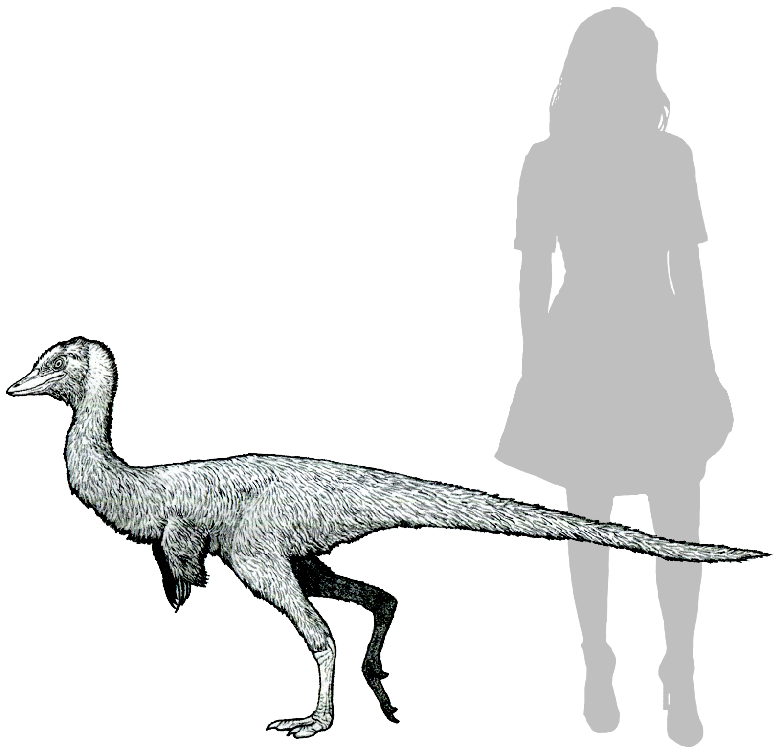 Scaled reconstruction of Bannykus wulatensis. (Tom Parker, 2018)